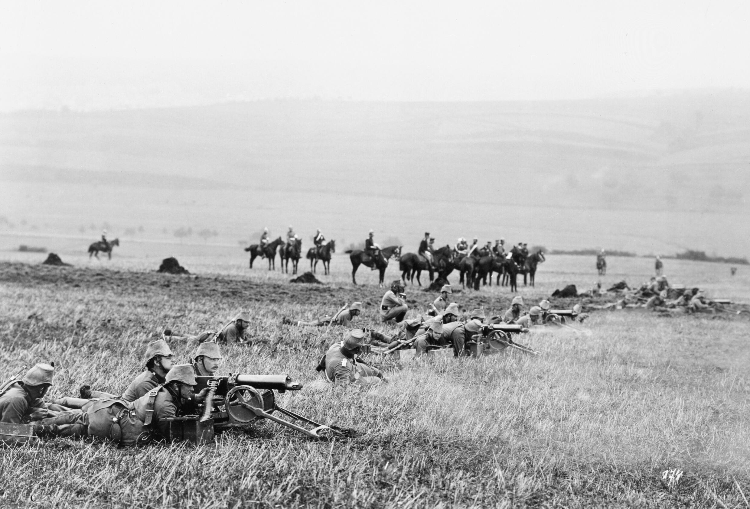 The Imperial German Army 1890 - 1913 German machine gunners in action during the manoeuvres of 1905.